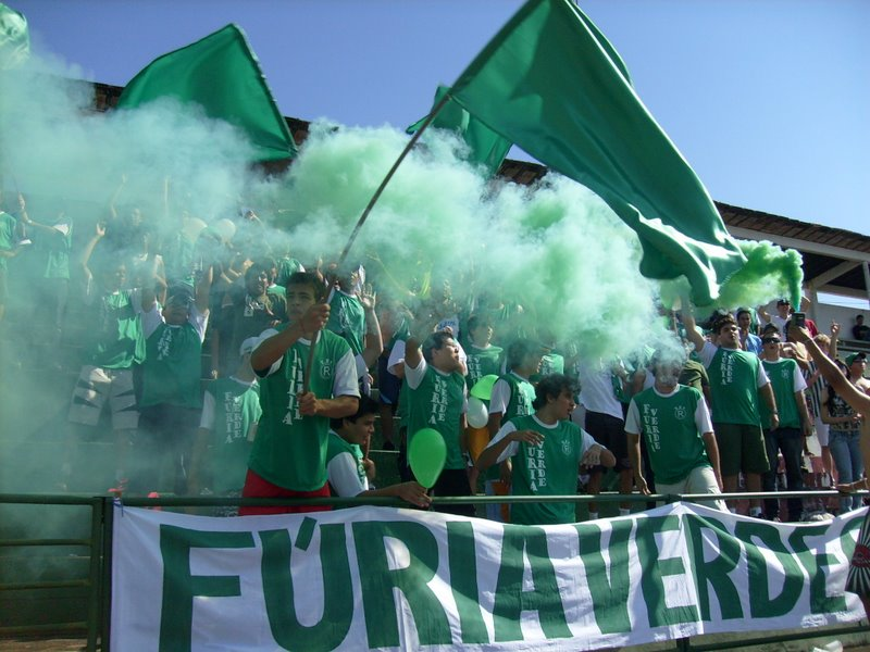 Crowd of Furia Verde